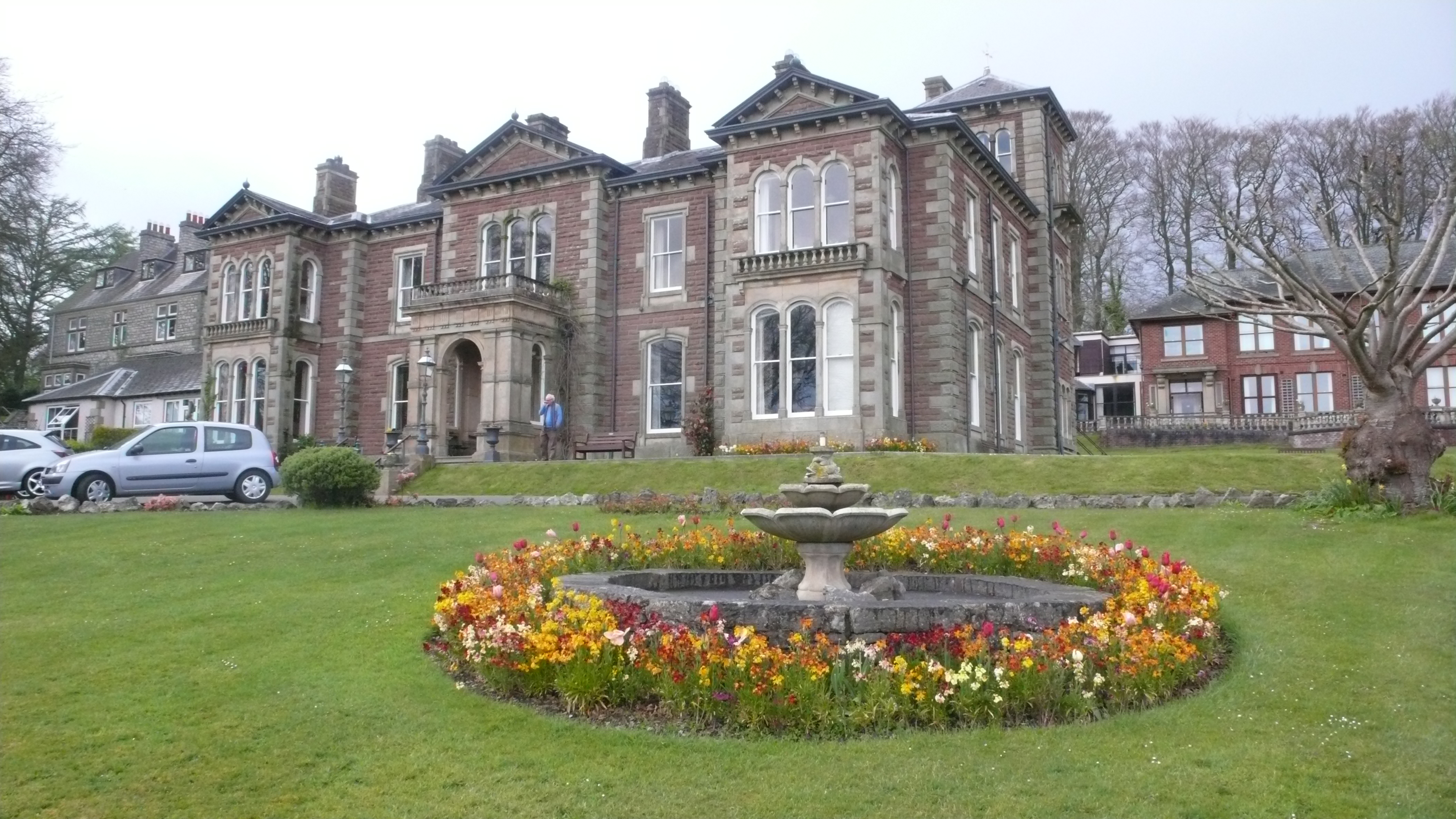 Boarbank Hall and Fountain